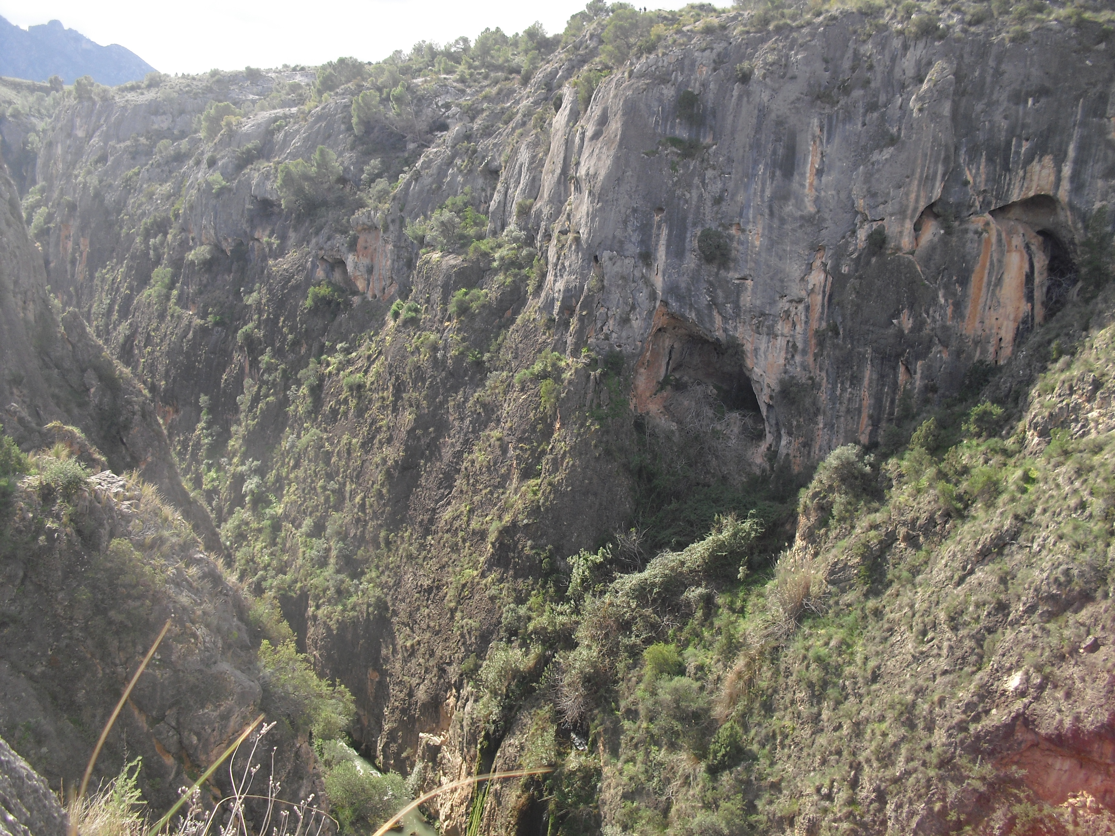 CañónDeAlmadenes